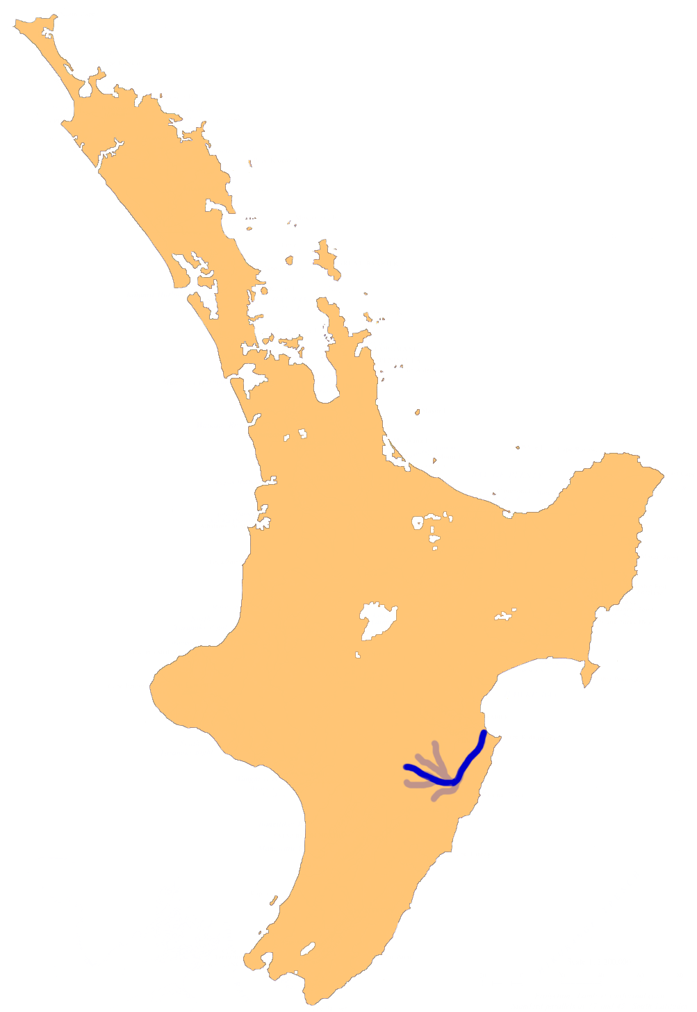 Location map of the Tukituki River, New Zealand